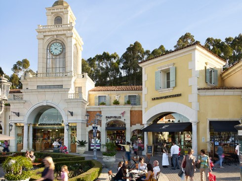 The Commons at Calabasas — a Mediterranean Revival style shopping center in Calabasas, in the western San Fernando Valley, Southern California. With high-end retail stores, restaurants, and entertainment venues within a landscaped setting - in one of the wealthier cities in California.